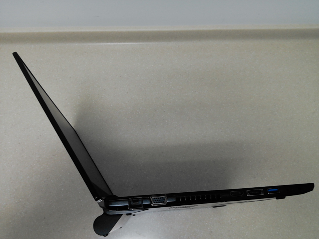 Acer TravelMate 8481TG side look